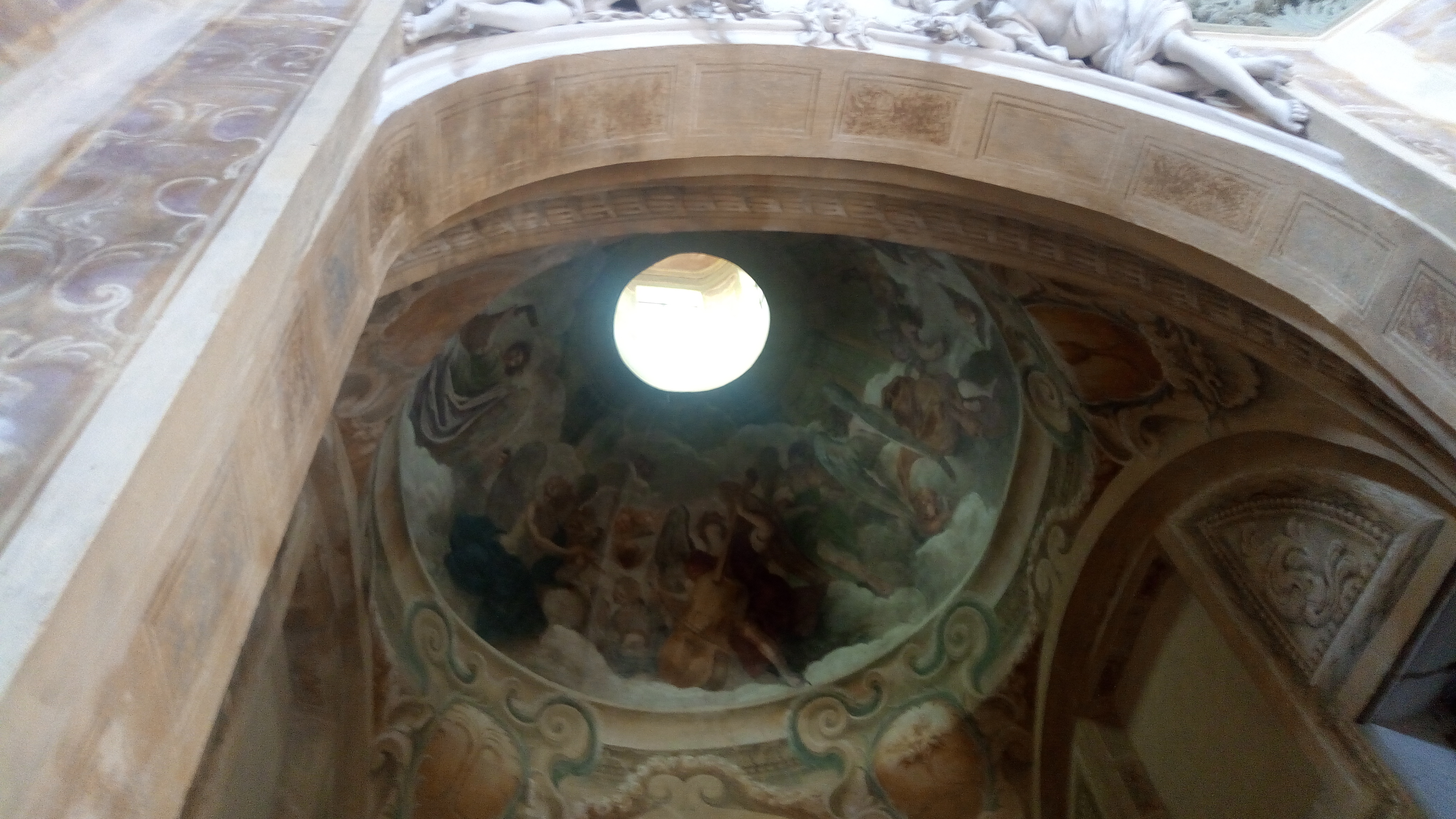 Serraglio Church